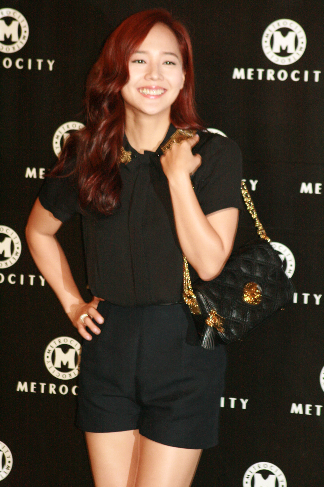 Eugene in 2011 Metrocity fashion show.